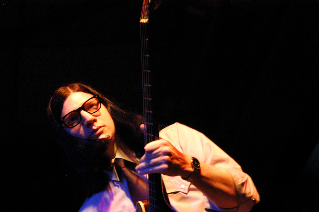 The Raconteurs, Accelerator, Stockholm